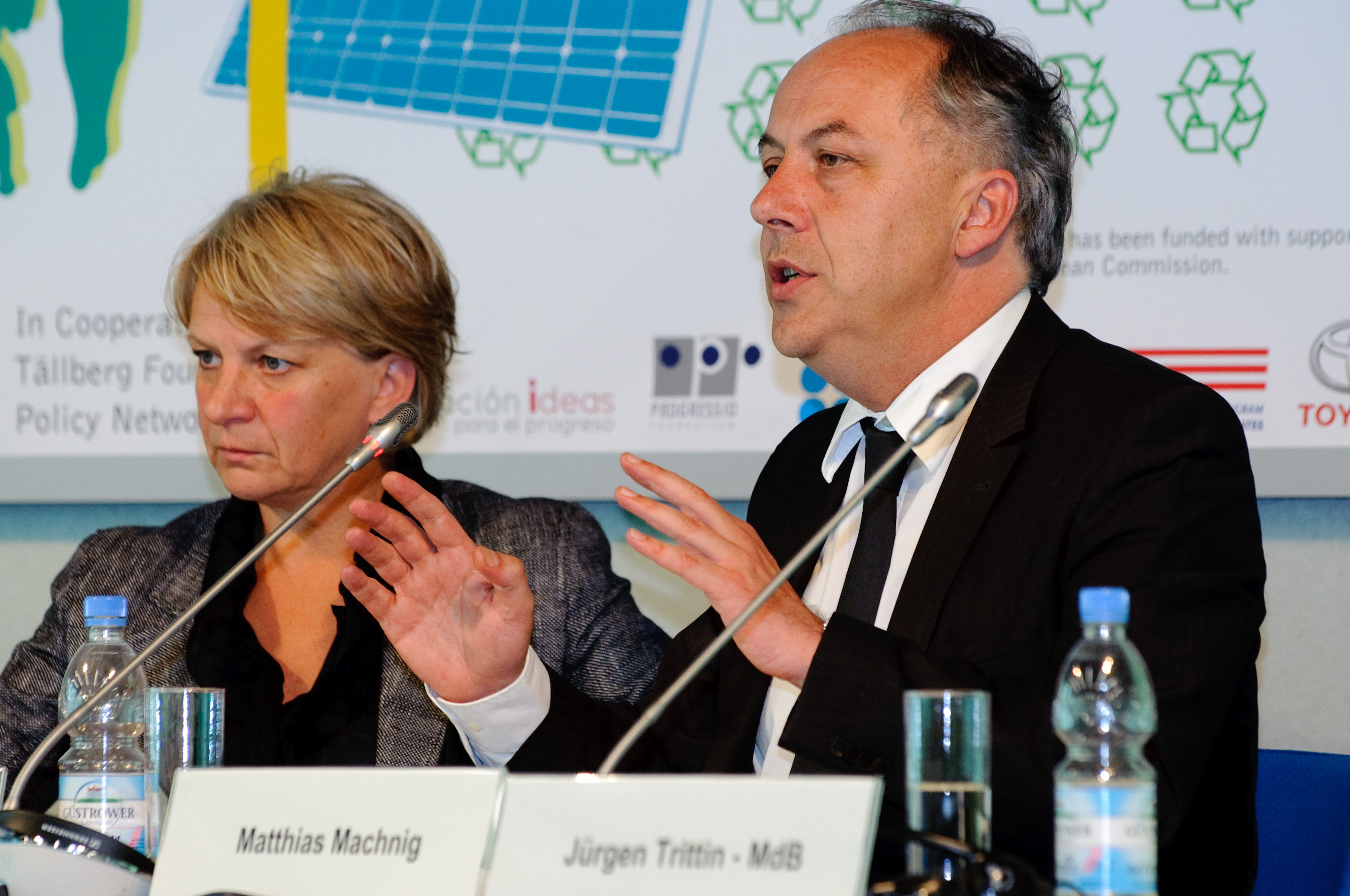 Barbara Unmüßig and Matthias Machnig Foto: Stephan Röhl